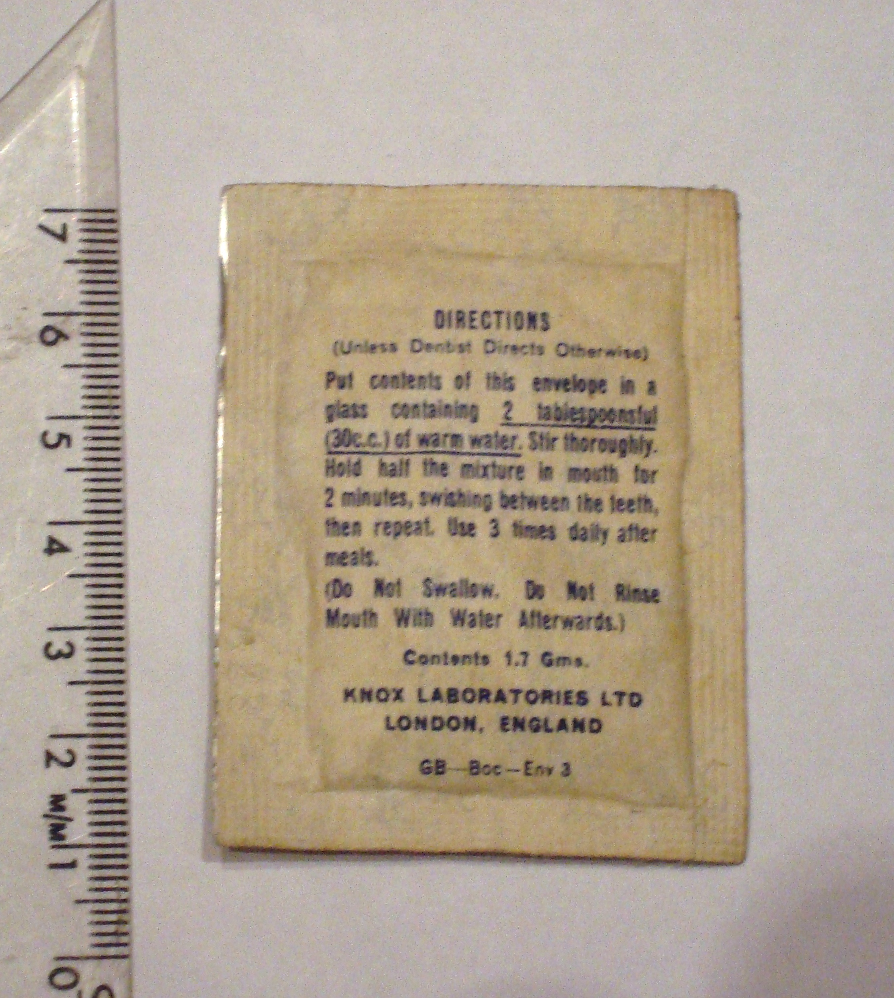 Reverse of Bocasan dental rinse packet (no longer manufactured)